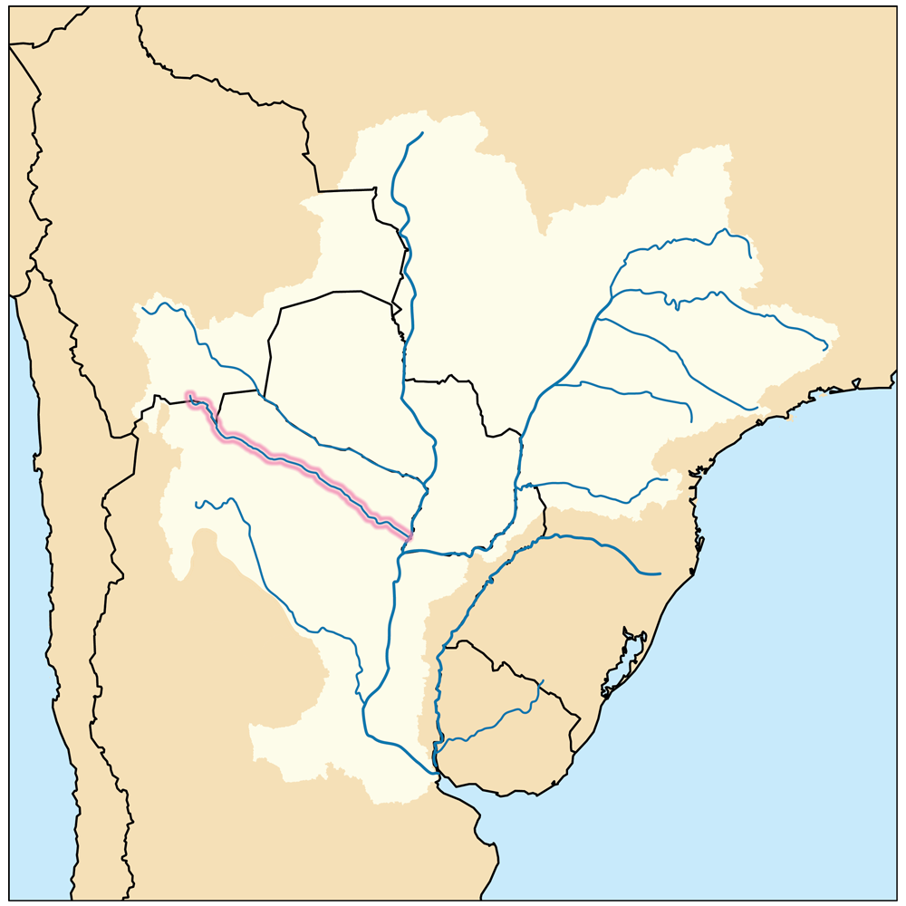 This is a map showing the Bermejo River highlighted within the Paraná River drainage basin.